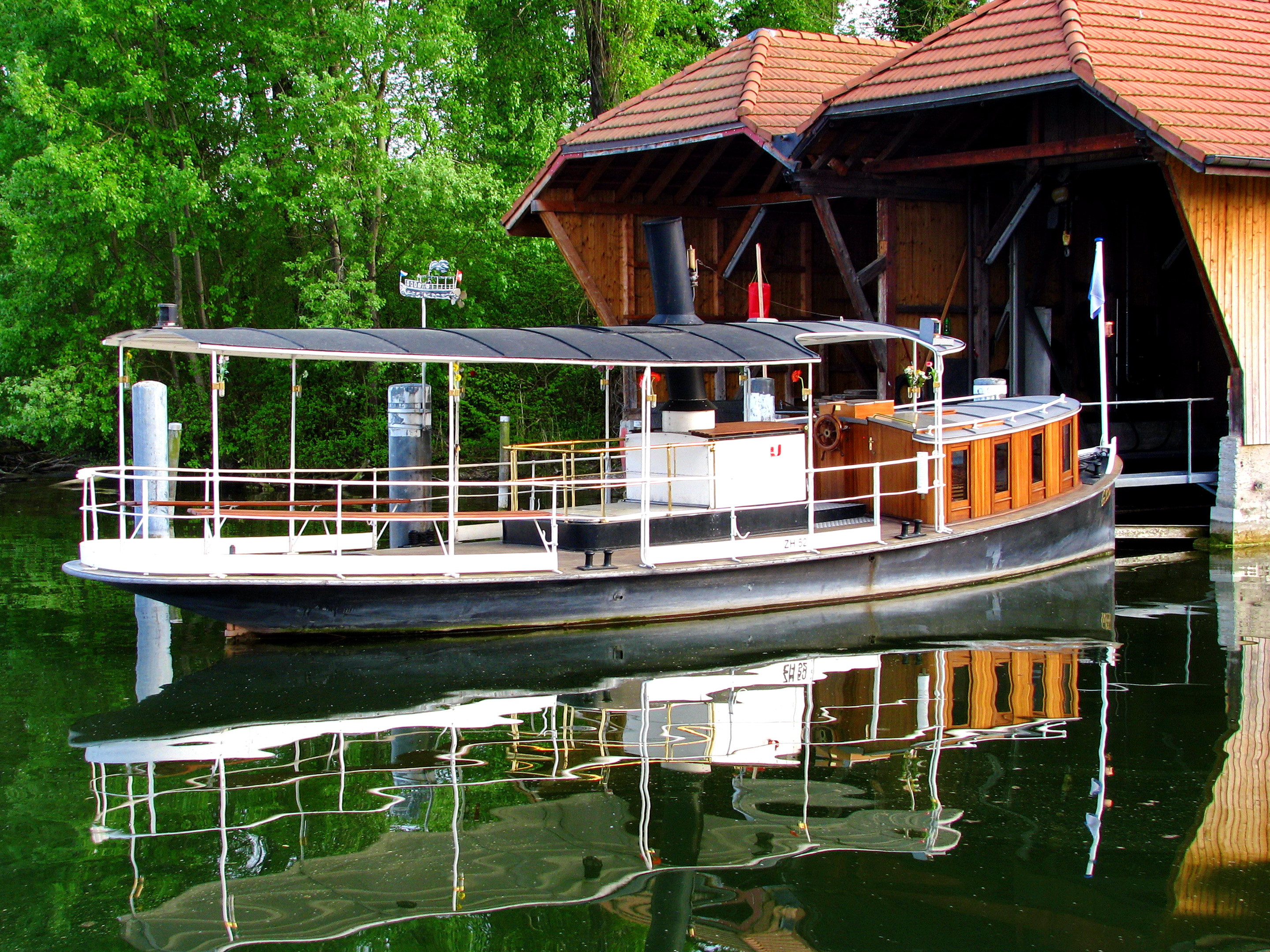 Steam ship Greif on Greifensee at Maur harbour